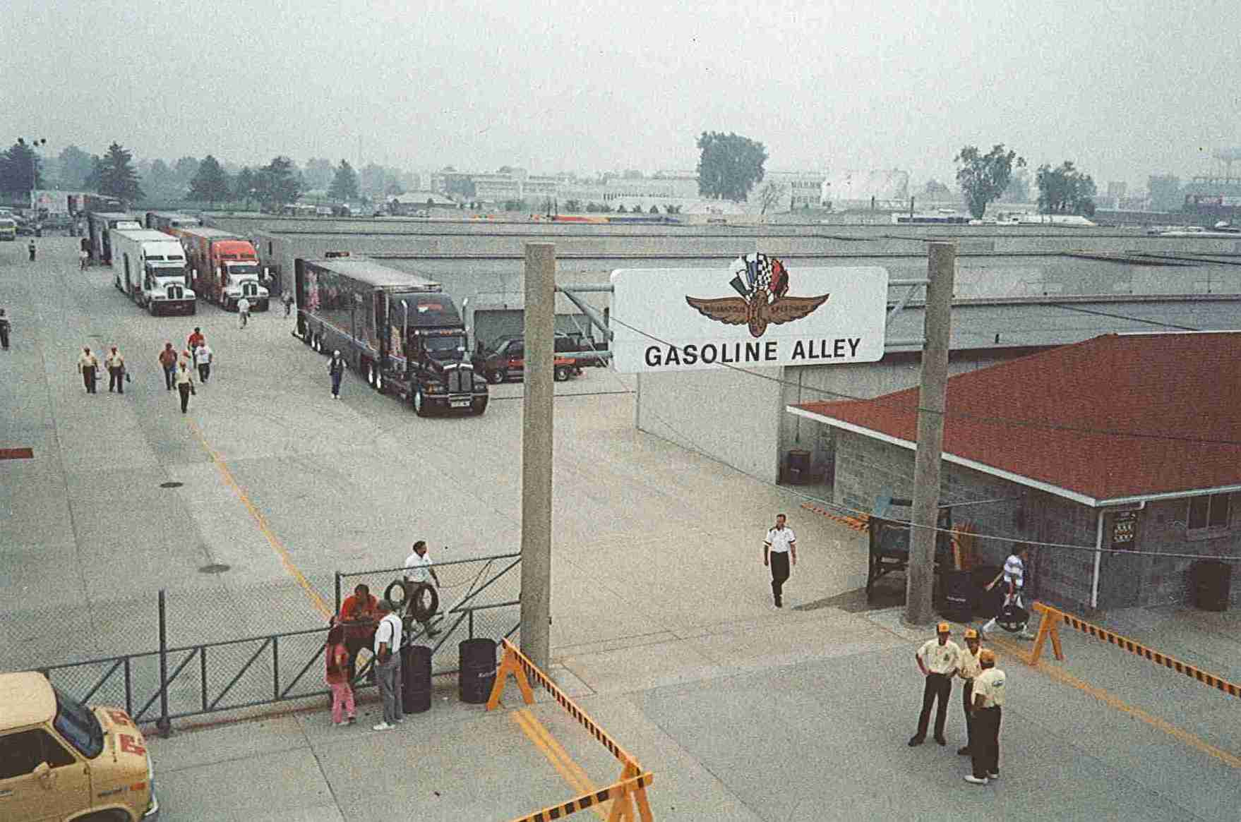 The garage area at the Indianapolis Motor Speedway (ca. 1993)